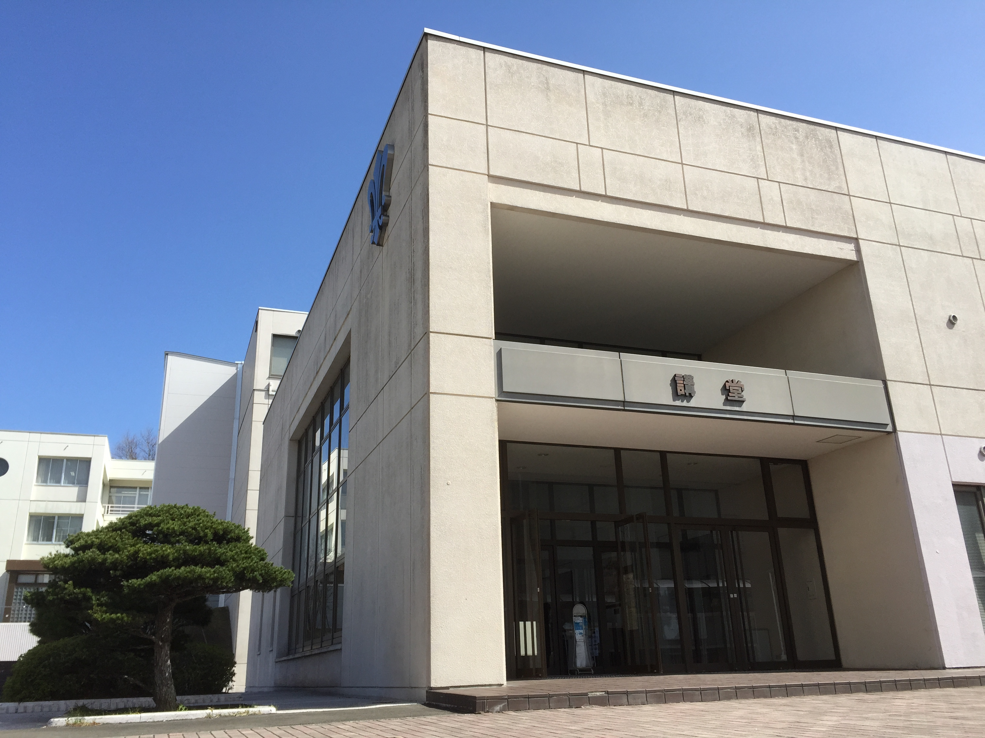 Sendai Shirayuri Women's College, auditorium